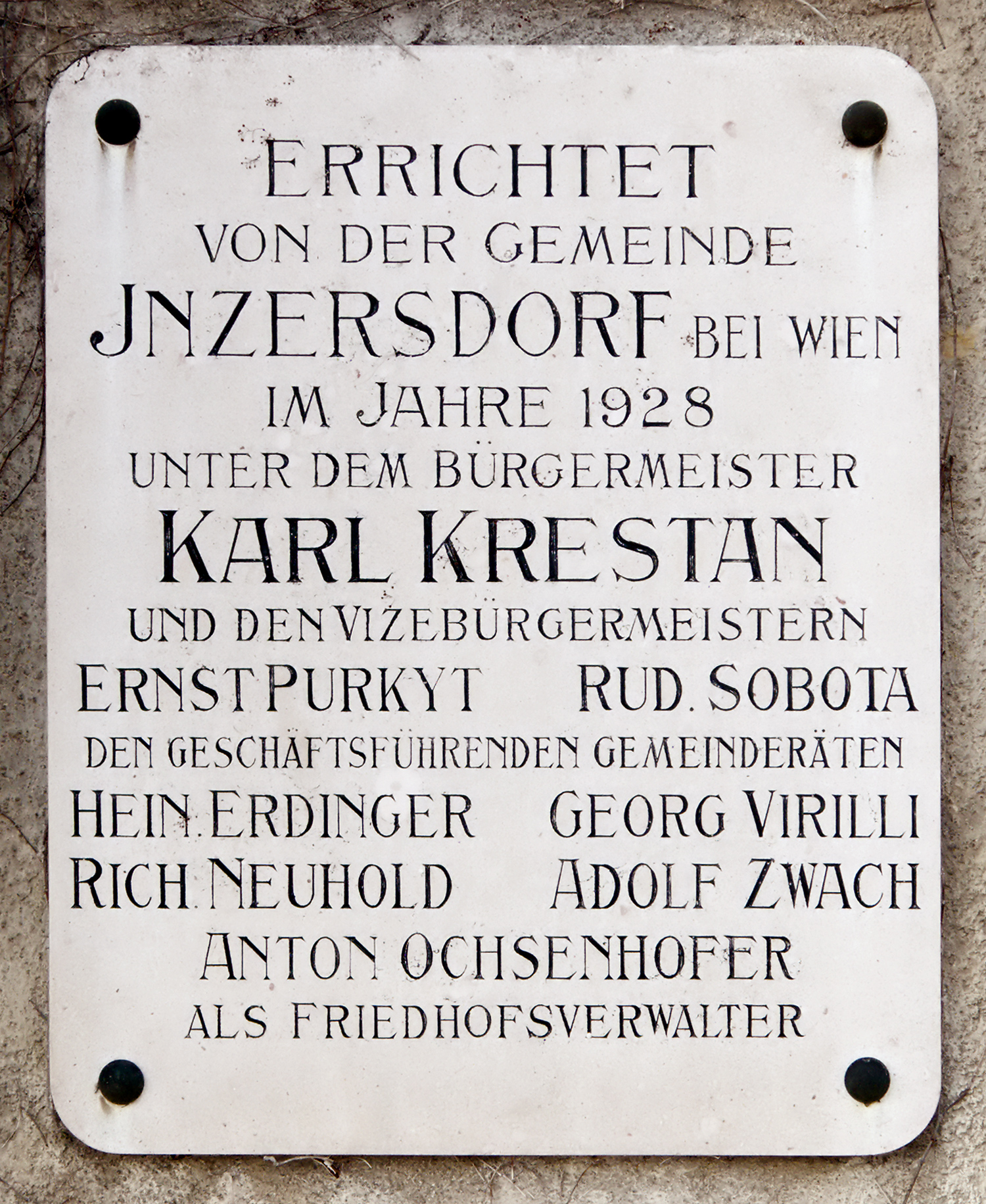 Inzersdorfer Friedhof in Vienna Liesing